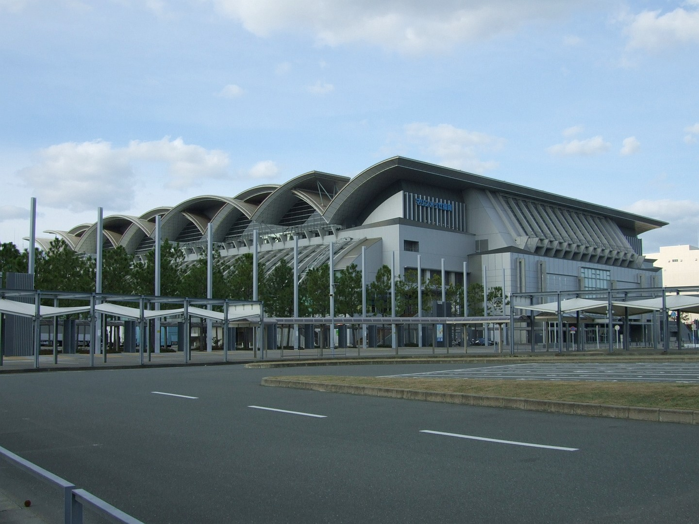 Marine Messe Fukuoka